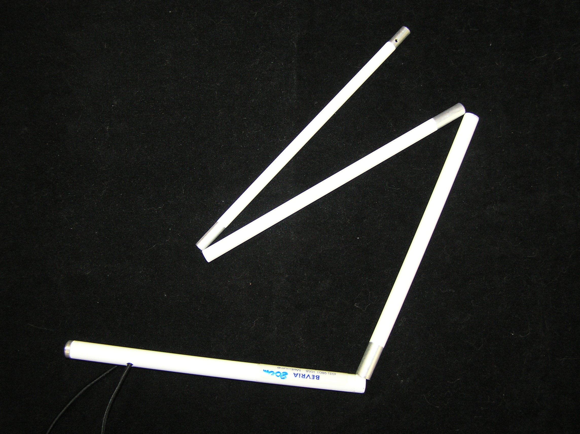 An identification cane (known as a symbol cane in British English). These are used to alert other's about the user's vision impairment and are more limited as a mobility tool than a long cane.